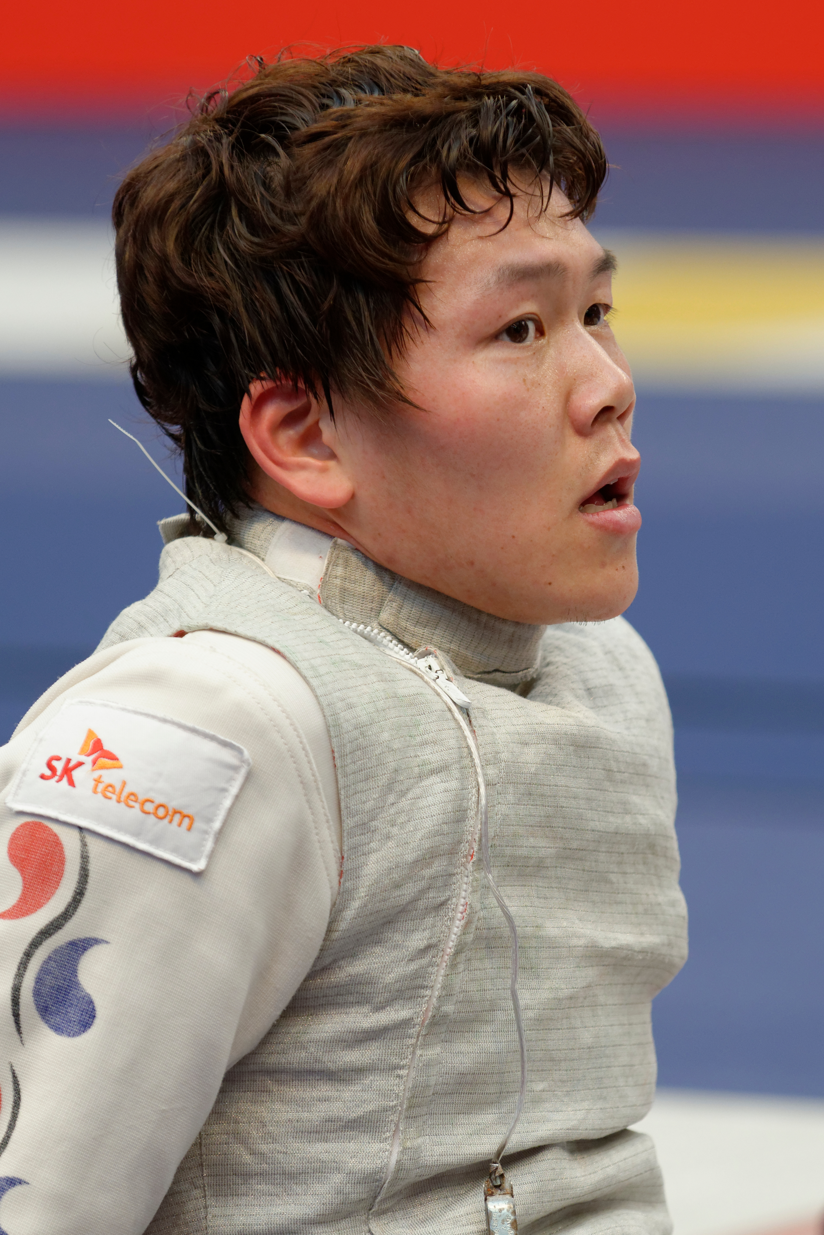 Ha Tae-gyu of Korea during his T64 against China's Ma Jianfei at the Challenge International de Paris (men's foil World Cup).